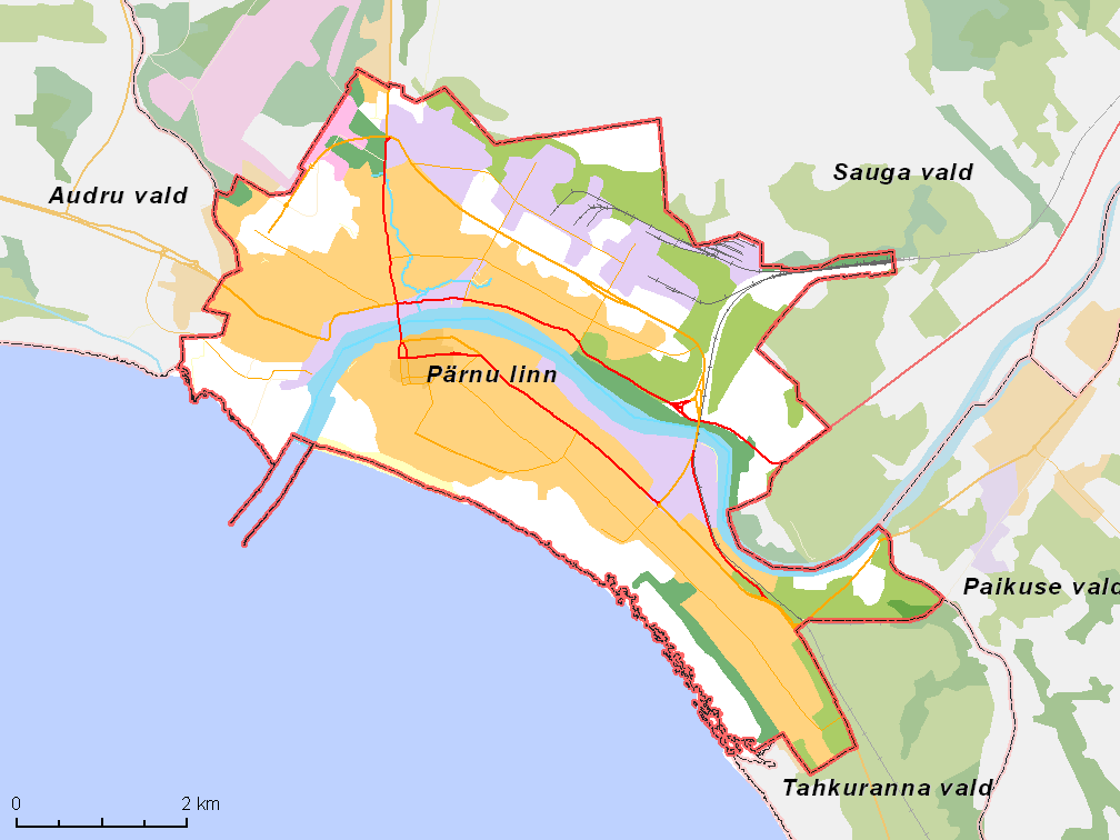 Map of municipality in Estonia